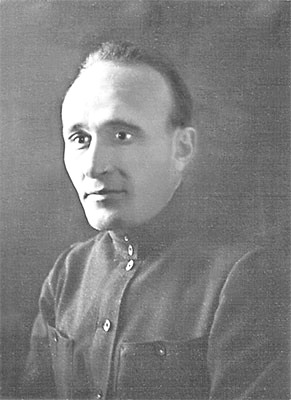 1920 Comintern in China Nitkersky.